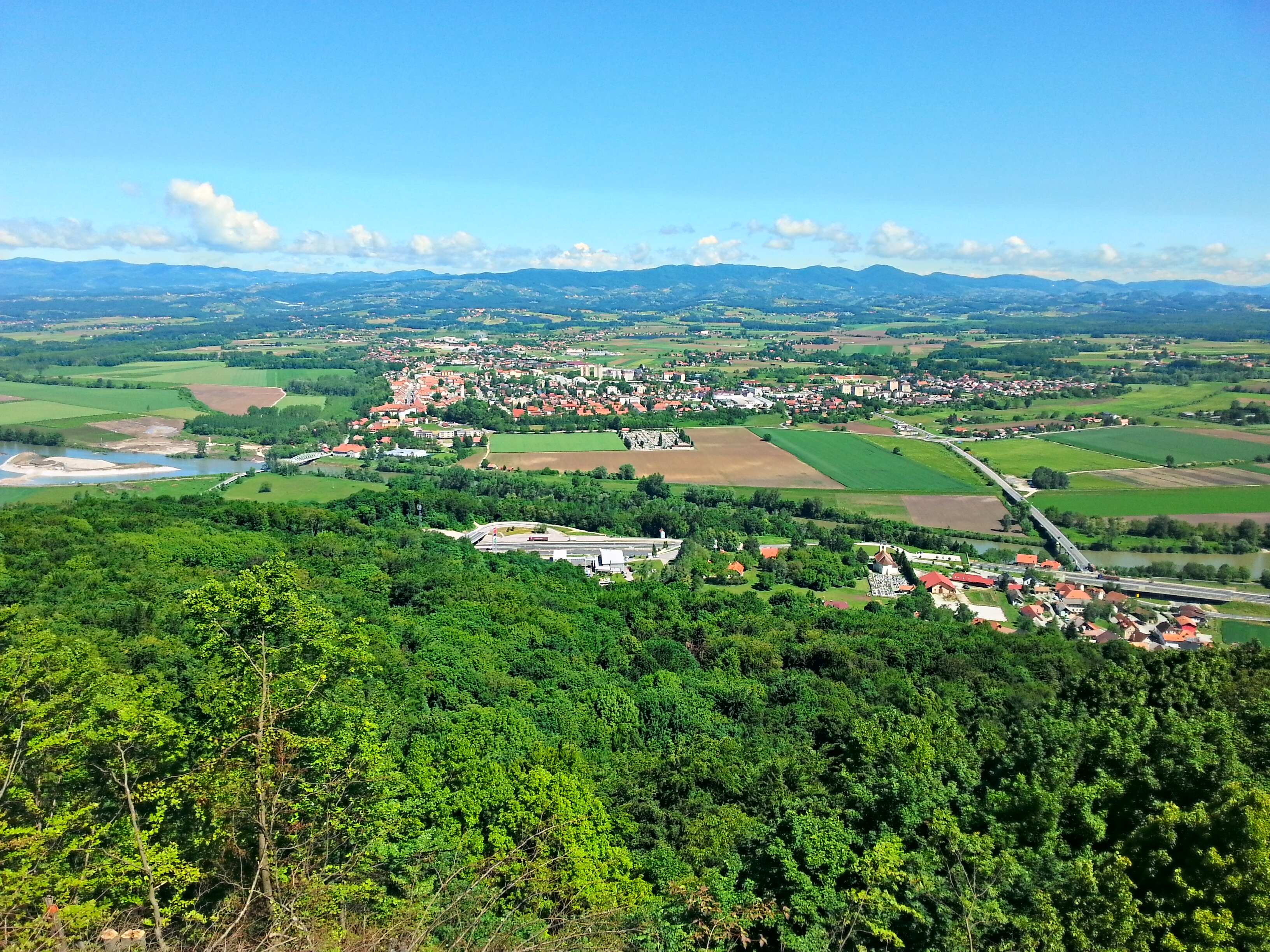 Panorama of Brežice